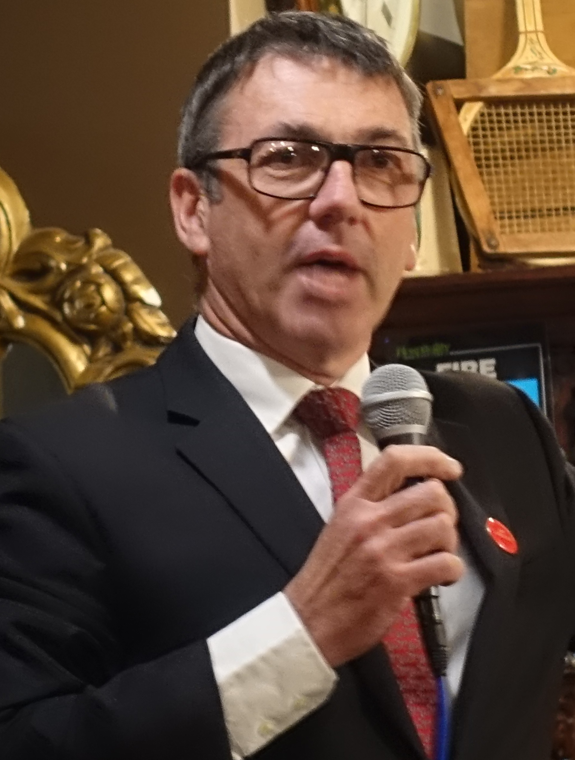 Christchurch Central candidate Duncan Webb speaking at a debate.